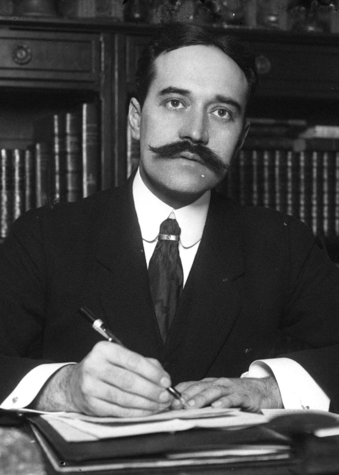 French politician Paul Bénazet (1876-1948)